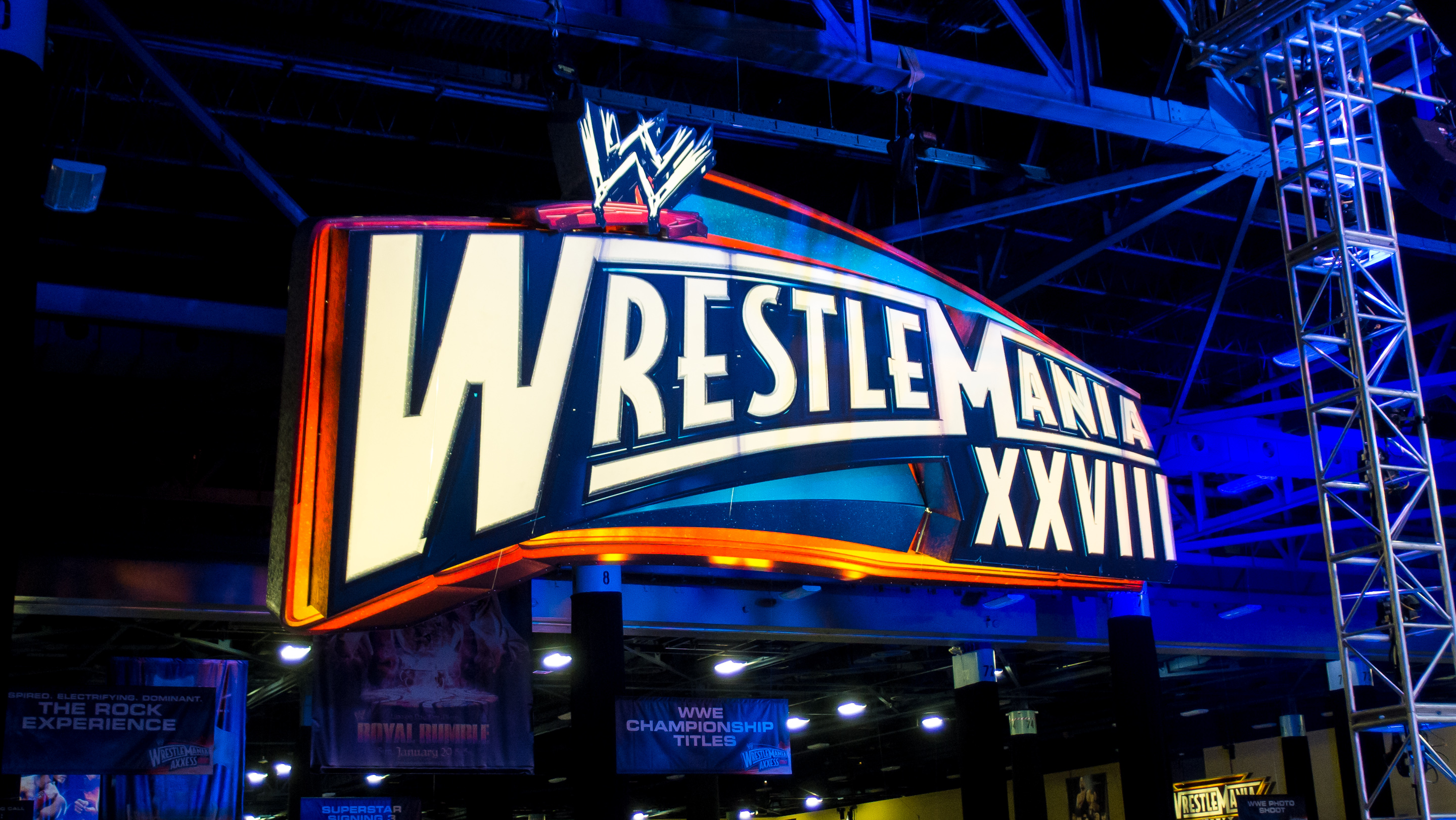 Wrestlemania XXVIII Sign.